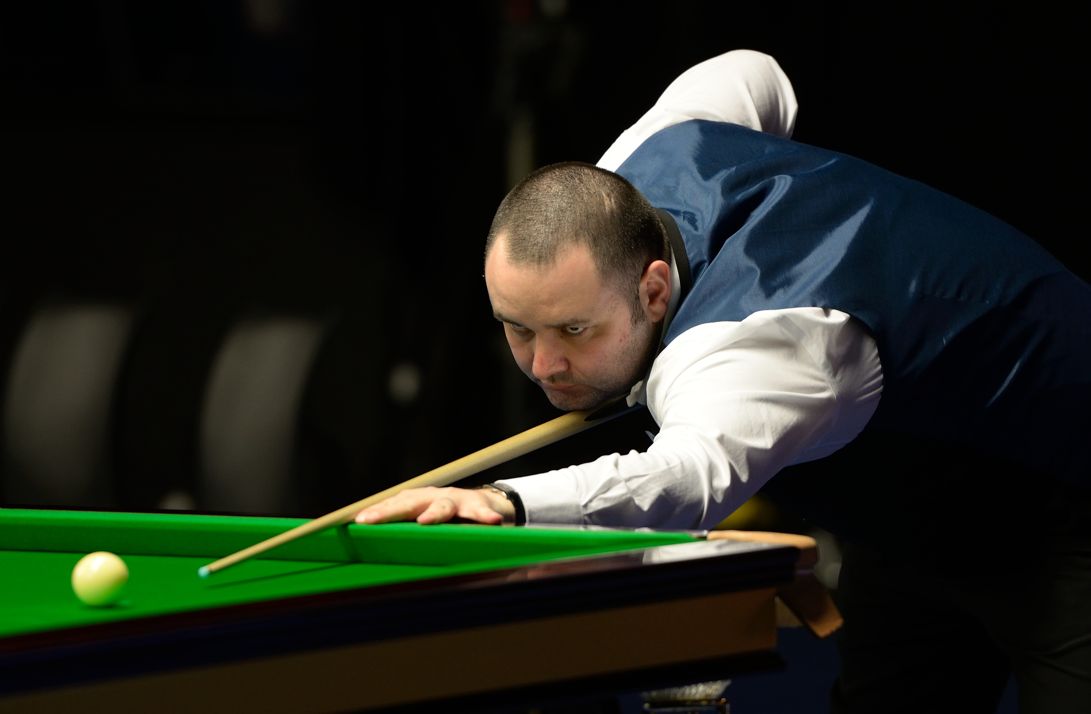 Picture taken in Berlin during the Snooker German Masters in 2015. Stephen Maguire.